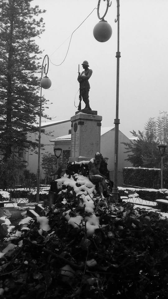 Nunziata. Monumento ai Caduti